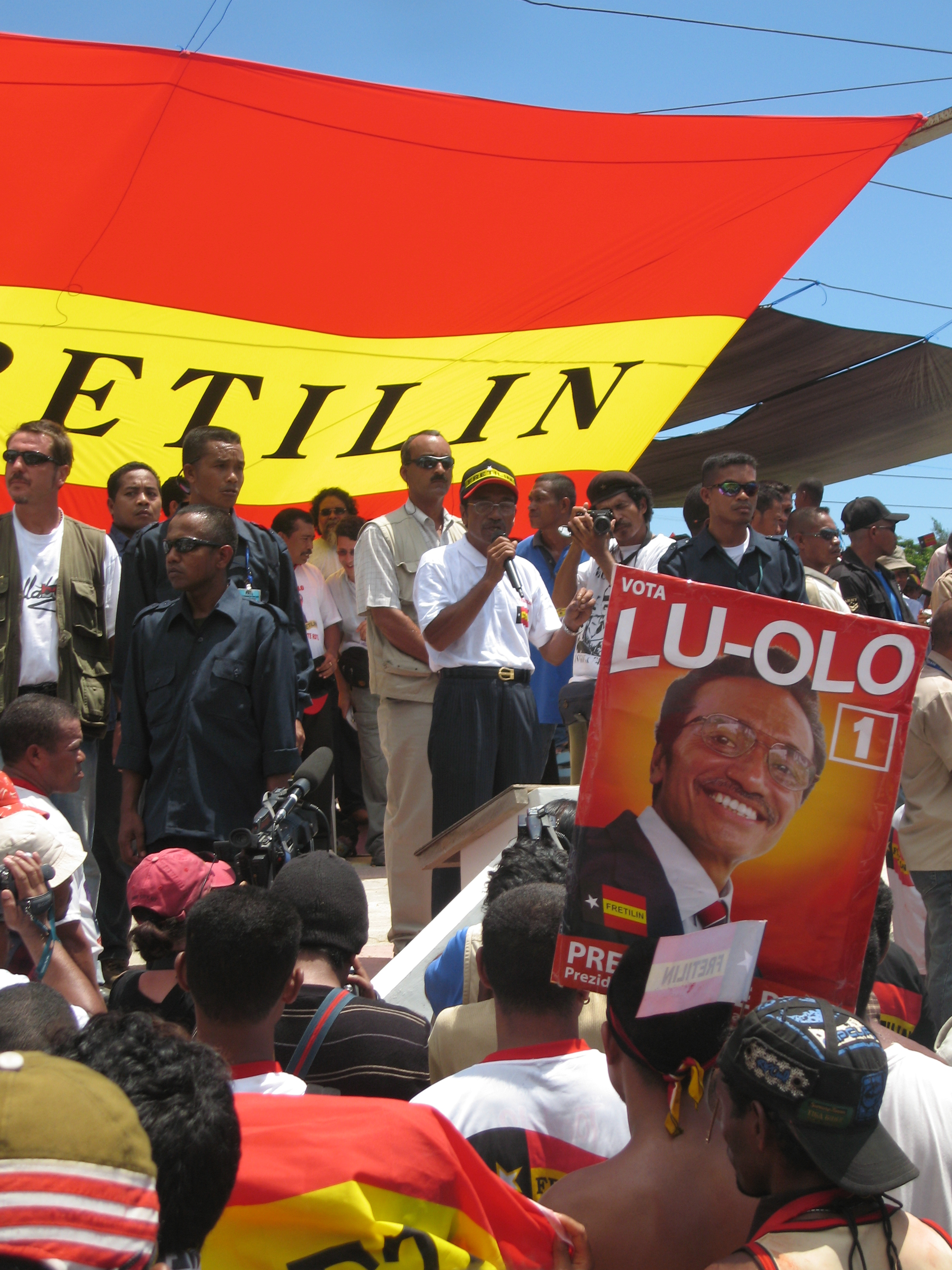 Francisco Guterres at FRETILIN campaign for presidential election 2007